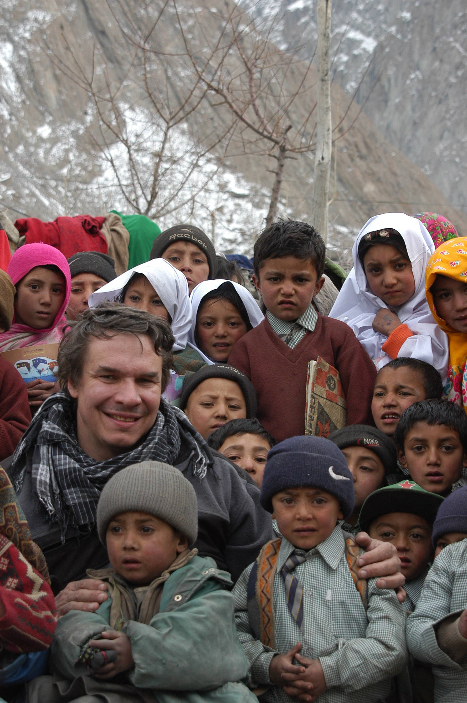 KHANDAY VILLAGE PAKISTAN – Nobel Prize nominee and New York Times best selling author Greg Mortenson along side the schoolchildren of Khanday Village. As of 2008, Mortenson has established over 78 schools in rural and often volatile regions of Pakistan and Afghanistan, which provide education to over 30,000 children, including 22,000 girls, where few education opportunities existed before.